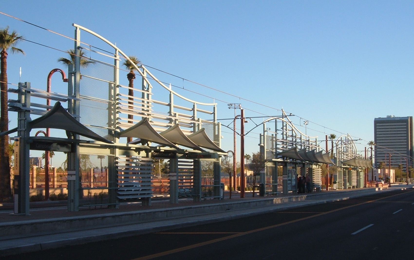 Photograph of the Campbell Avenue/Central High School (or Central at Campbell) Station of METRO Light Rail that serves the Phoenix area, Arizona, USA. This photograph was taken on December 29, 2008.